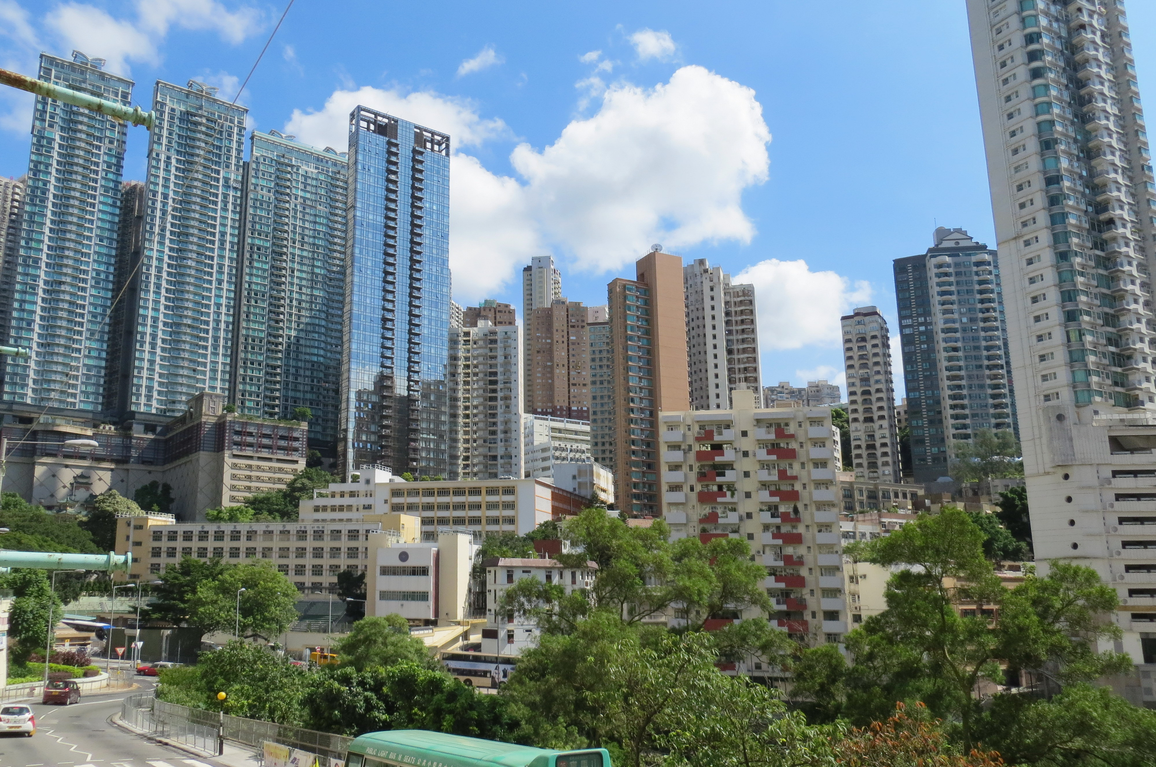 The Legend at Jardine's Lookout, Tai Hang, Hong Kong.